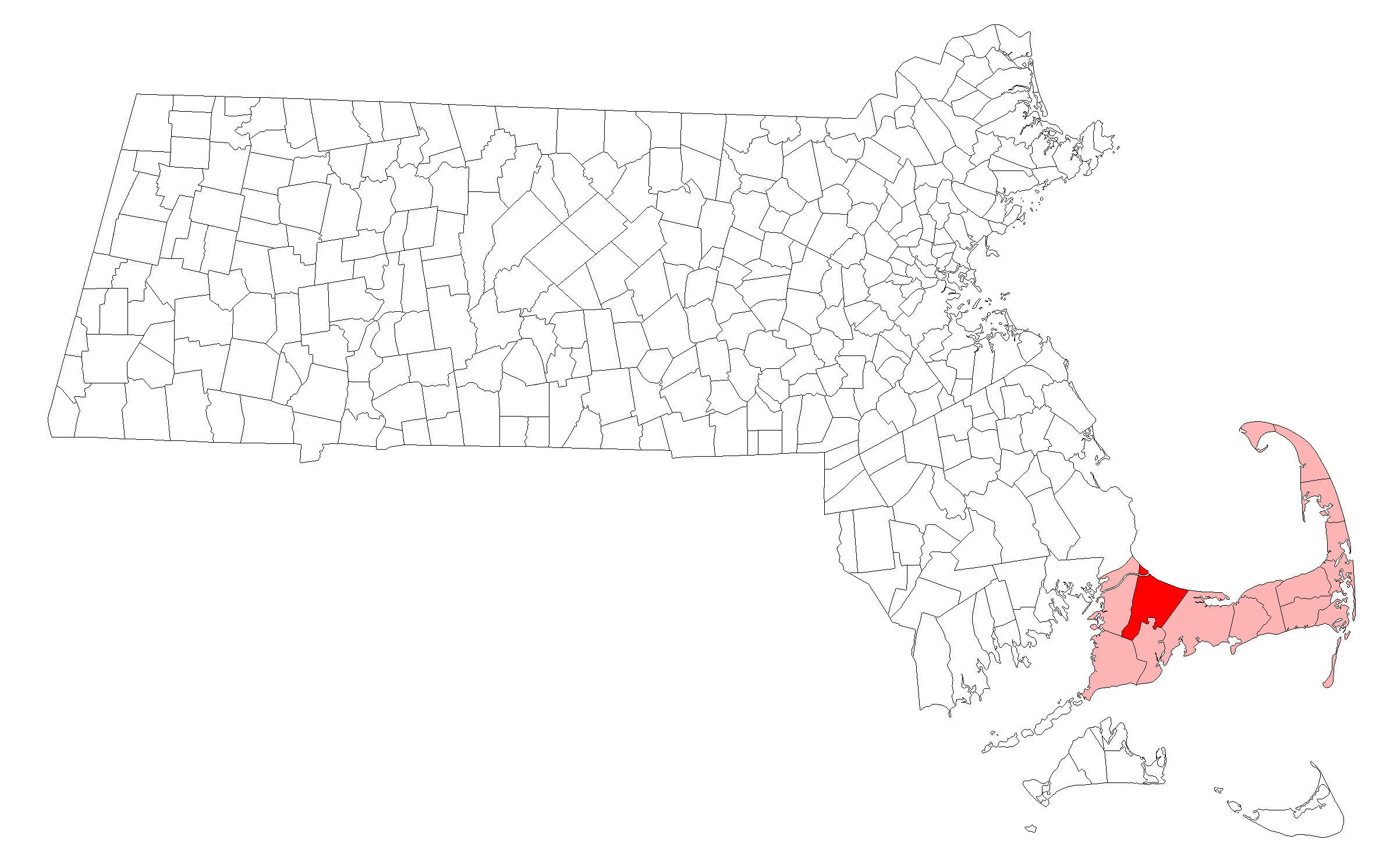 Location of Sandwich within Barnstable County, MA.